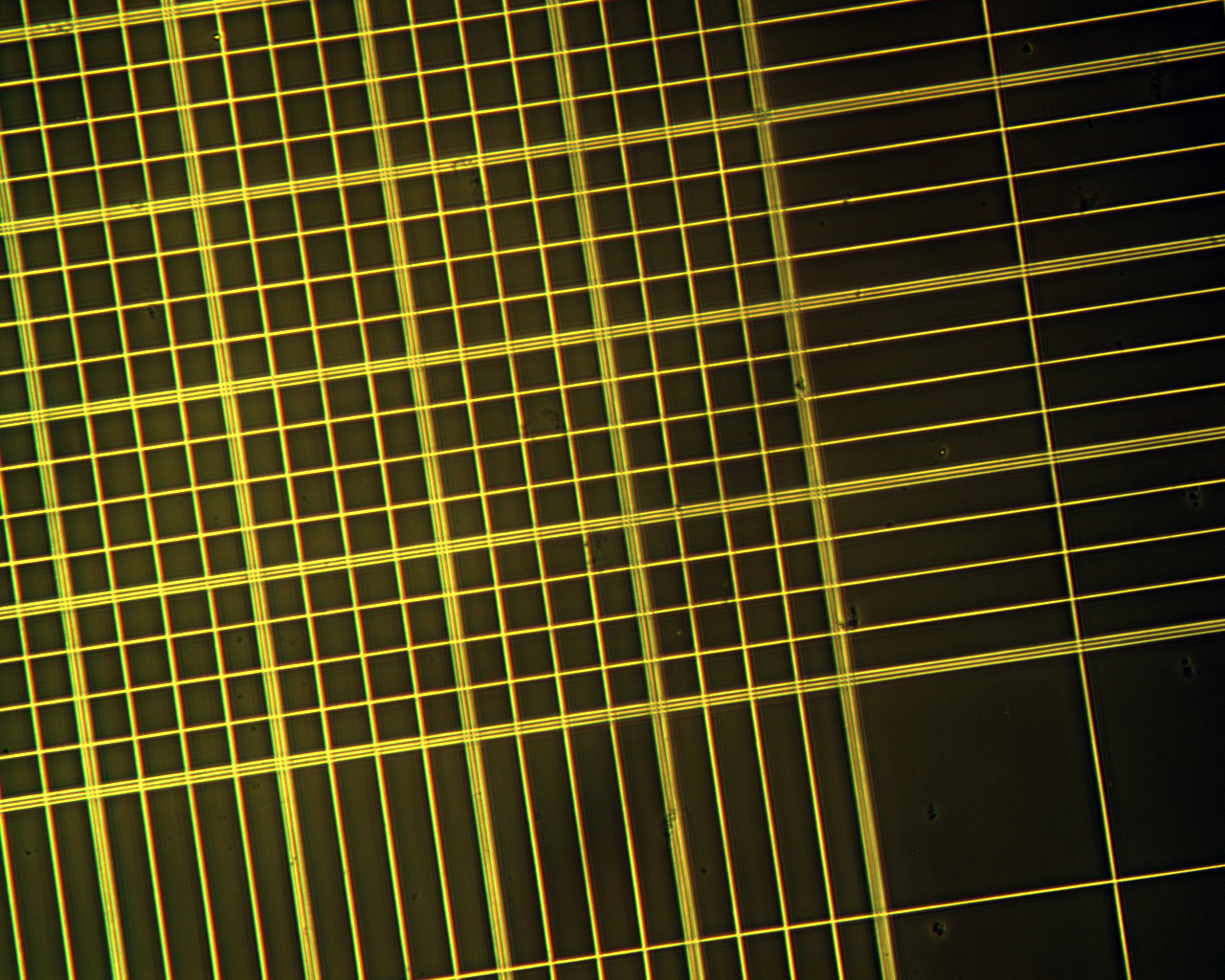 The background grid is the portion of a hemocytometer used for counting cells, visible under a microscope at 100x power.